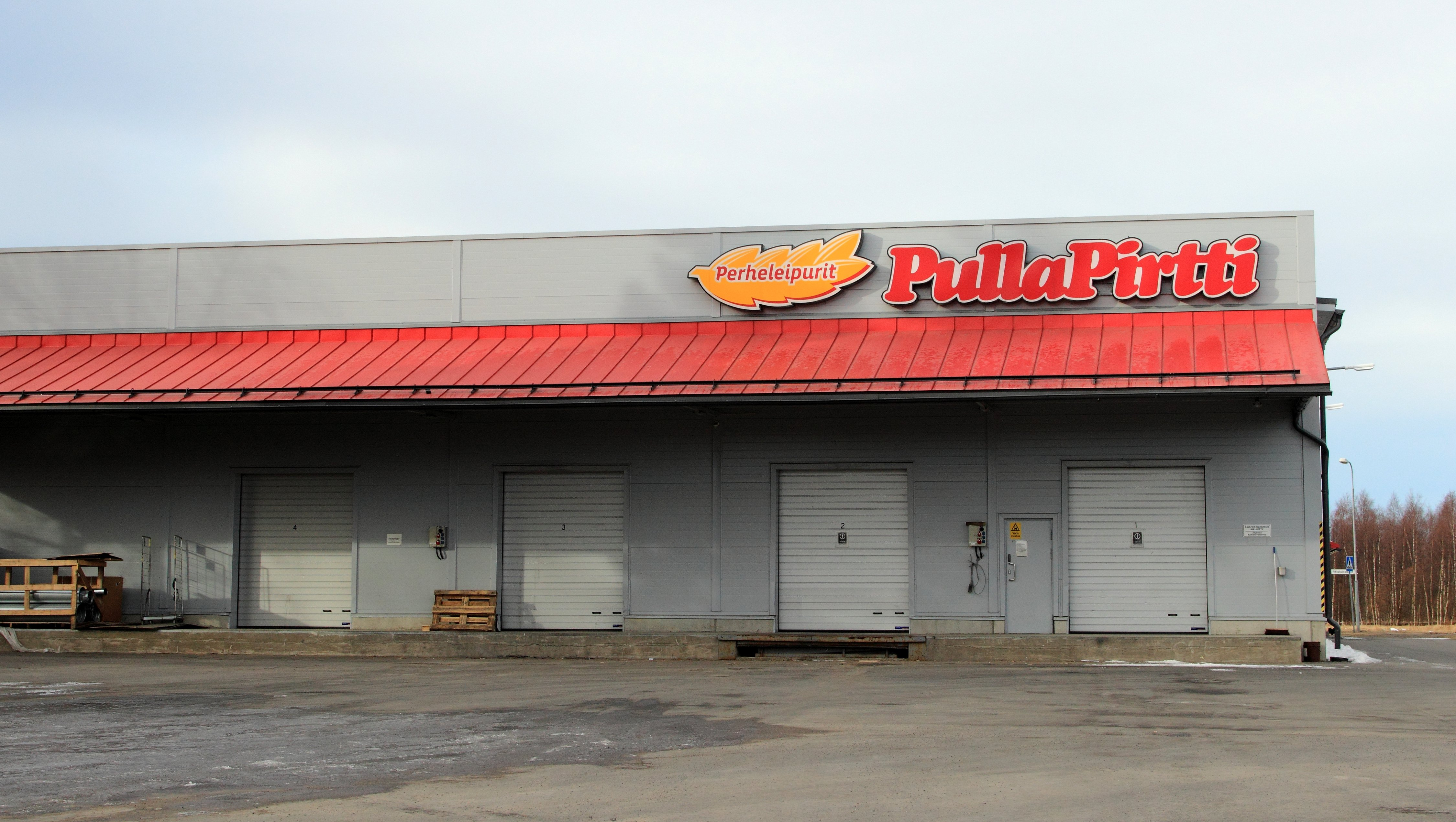 Pulla-Pirtti bakery in Perävainio, Oulu.